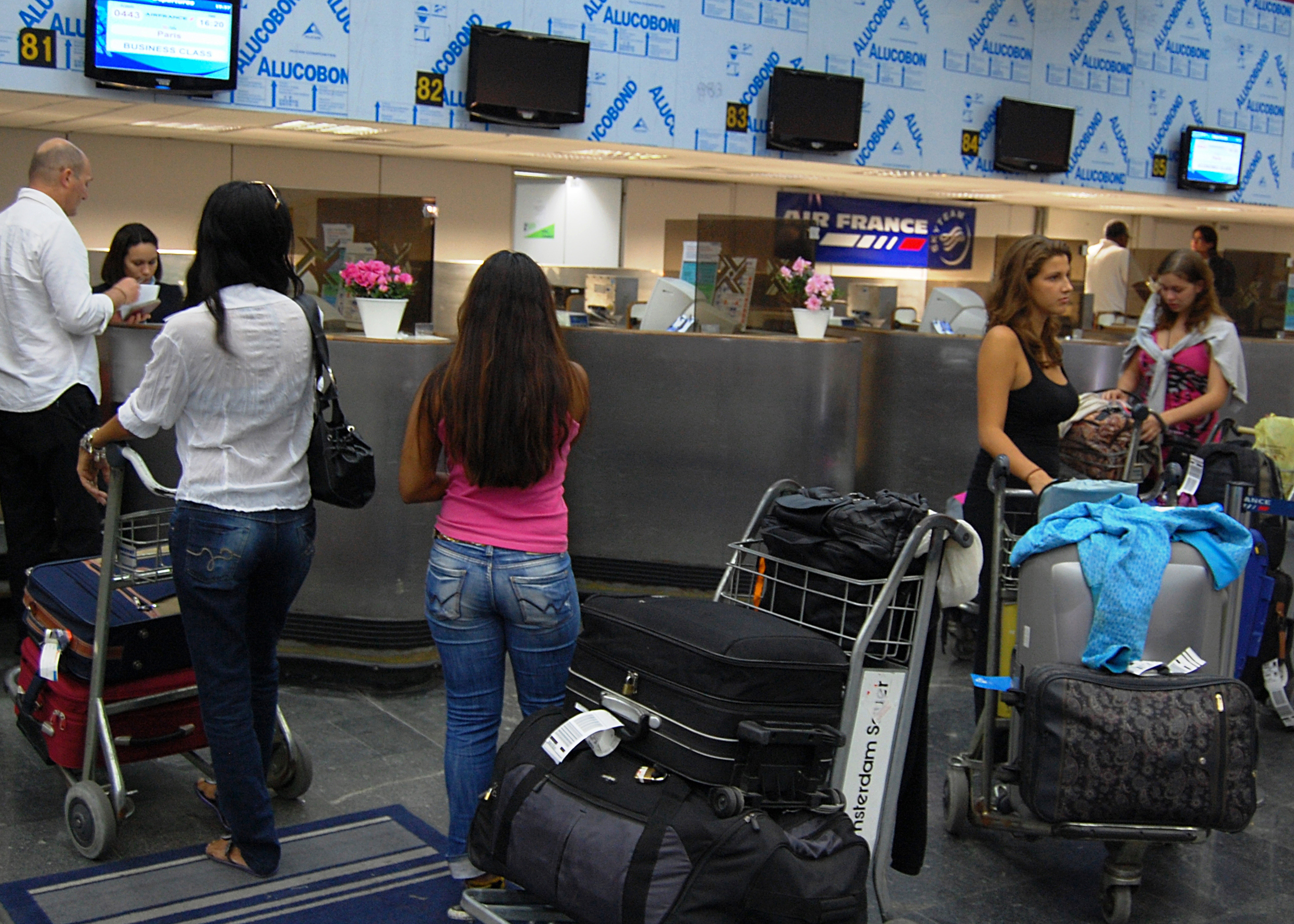 Rio de Janeiro - Passengers departing for Paris at the Air France ticket counter at Galeao Airport in Rio de Janeiro, inquiring about Air France Flight 447